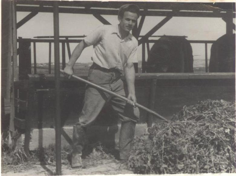 Isaac Menda at work in Beit Hanan, cow feeding